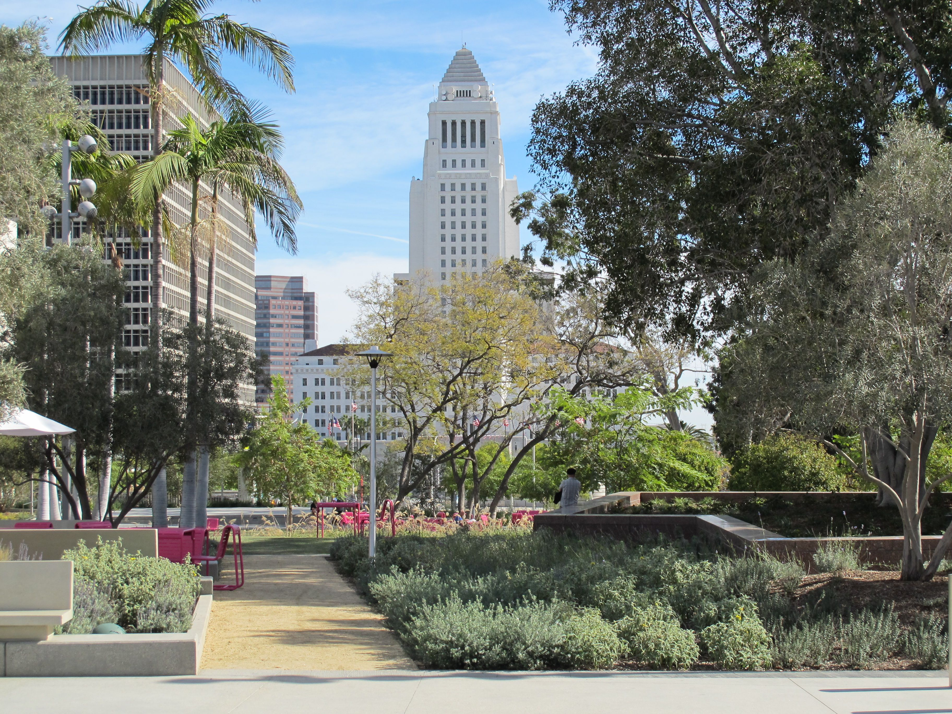 Grand Park in downtown Los Angeles, looking toward City Hall.